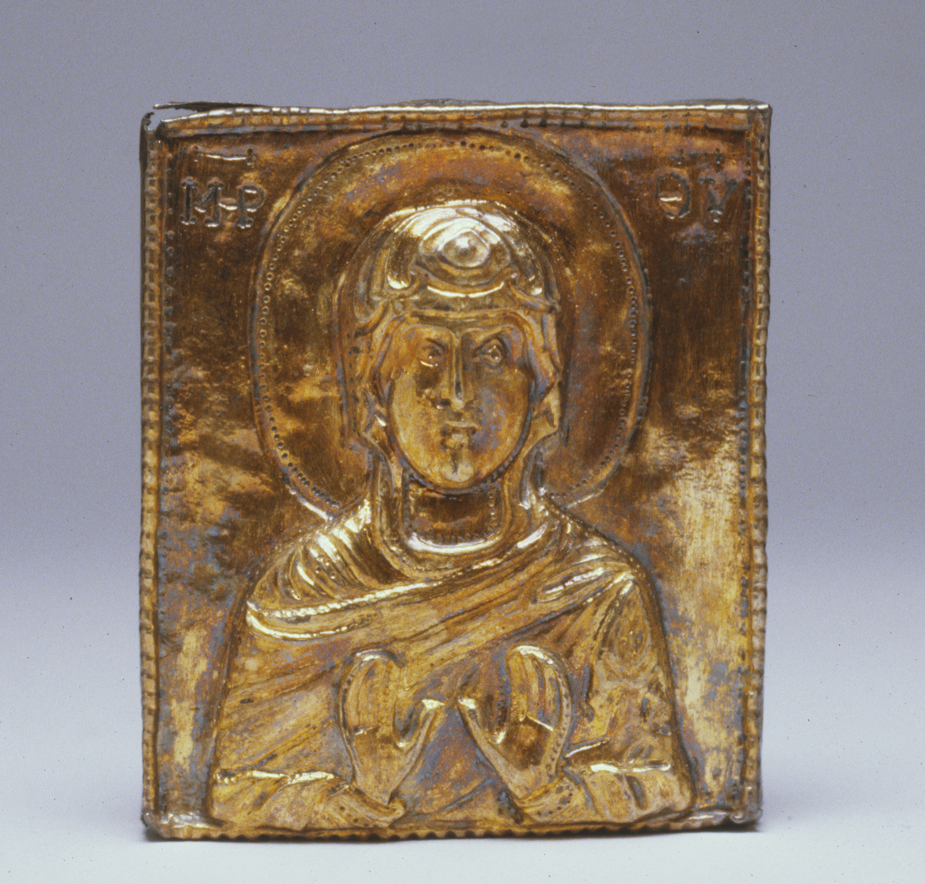 This small icon depicts the Virgin with her hands raised in prayer, and identified by an abbreviated inscription as the Mother of God. The size and theme of the icon suggest it was used in private devotion. For its pious owner, it would have served as a constant reminder of the Virgin's role as the most effective mediator between God and humankind.